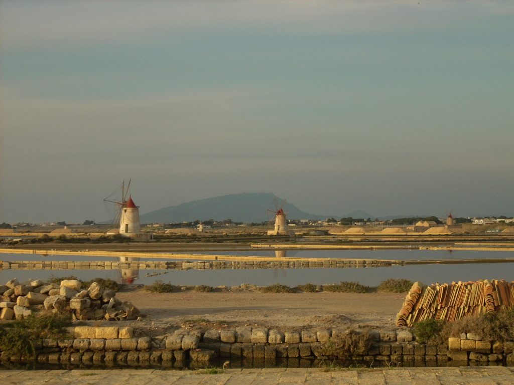 Salt evaporation ponds at Marsala, Sicily